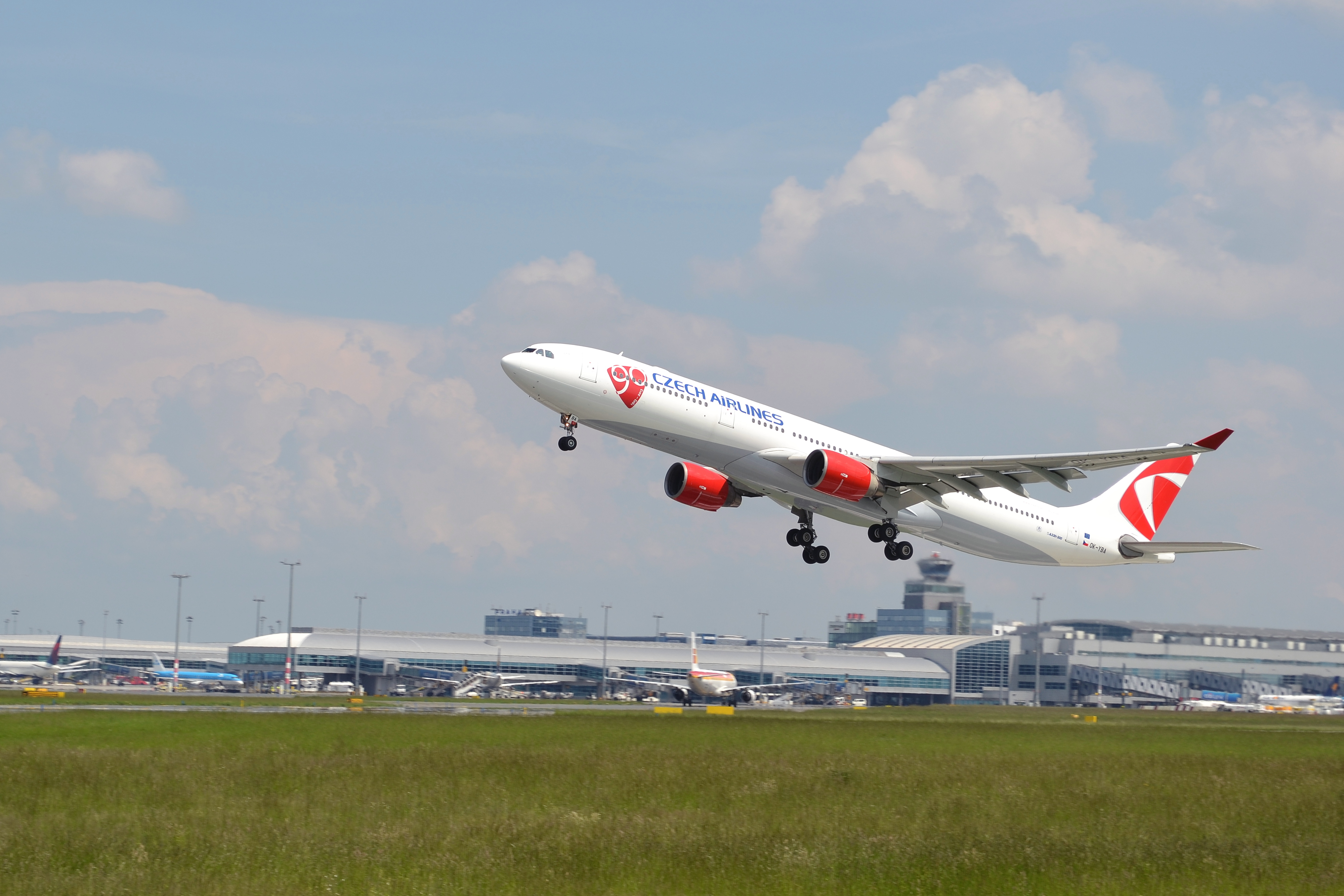 Airbus A330-300 OK-YBA of Czech Airlines takes off from Václav Havel Airport Prague, Czech Republic.